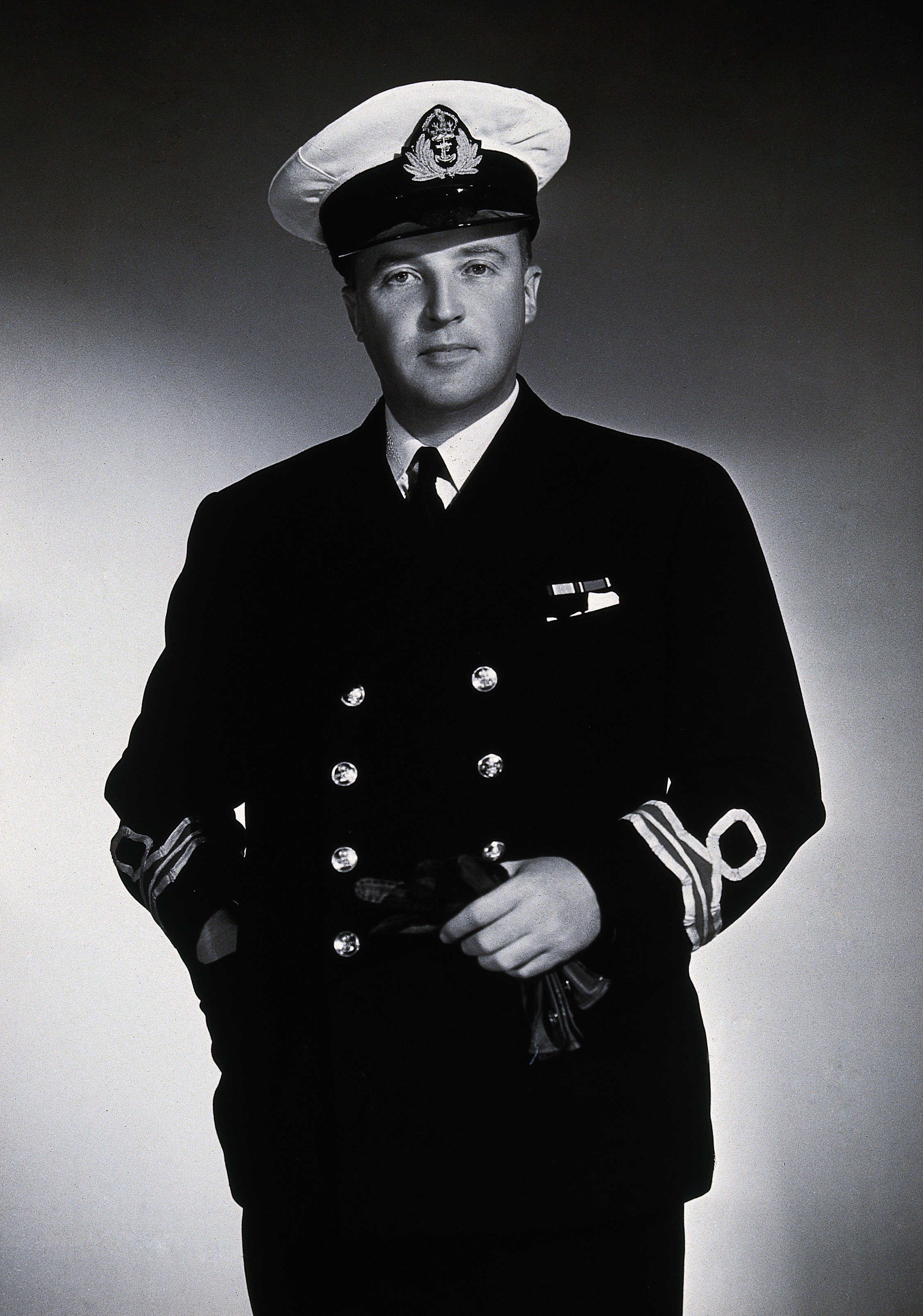 Charles Herbert Best. Photograph by Ronny Jaques. Iconographic Collections Keywords: portrait photographs